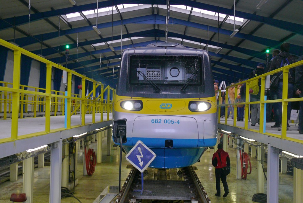 ČD Class 680 are electric multiple units used in the Czech Republic, using tilting Pendolino technology.